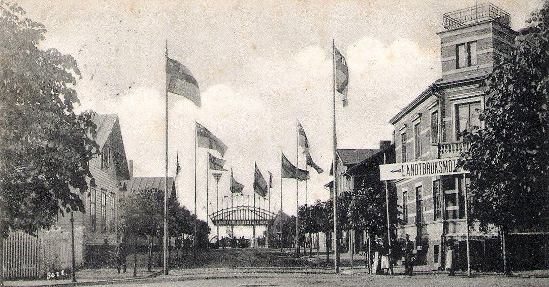 The entry to the agricultural exhibition in Varberg, Sweden, in 1904.